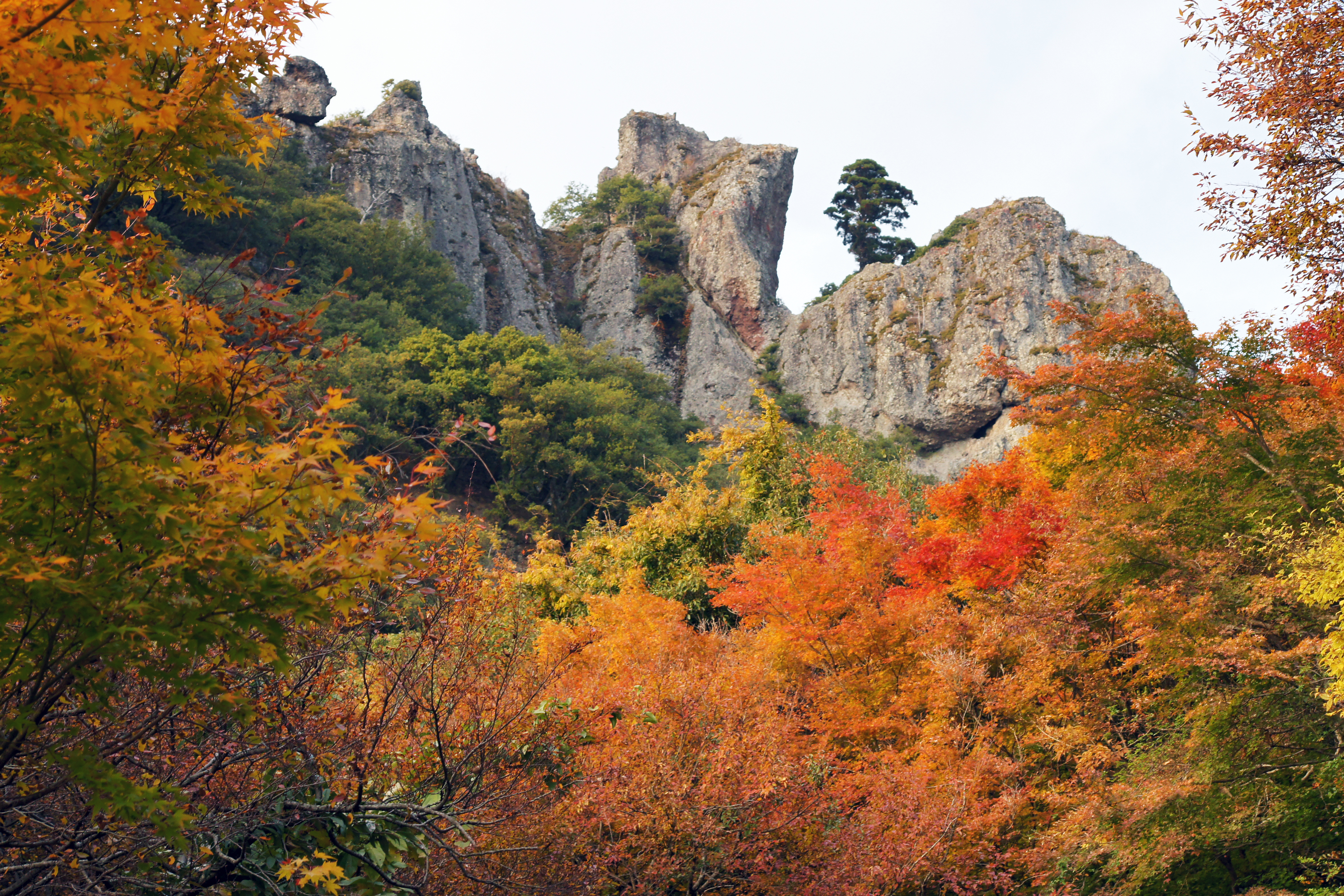 Kankakei in Shodoshima, Kagawa Prefecture, Japan